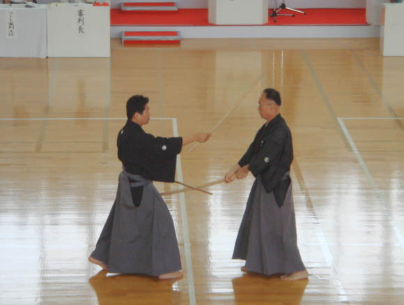 Masters Yoshimoti Kiyoshi and Ishii Toyozumi in demonstration of Hyoho Niten Ichi Ryu, Nito Seiho (set of techniques with two swords) in the All Japan Naginata Championship